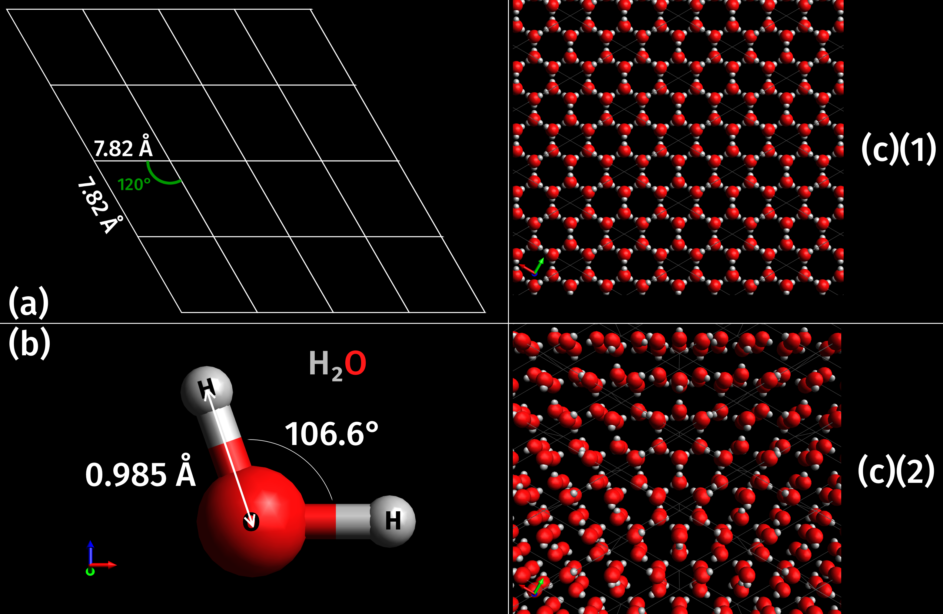 The (3-D) crystal structure of H2O ice Ih (c) is comprised of bases of H2O ice molecules (b) located on lattice points within the (2-D) hexagonal space lattice (a). The values for the H—O—H angle and O—H distance have come from Physics of Ice[1] with uncertainties of ±1.5° and ±0.005 Å, respectively. The black box in (c) is the unit cell defined by Bernal and Fowler[2] (c)(1) Orthographic (c); (c)(2) Perspective (c). Software used: Adobe Illustrator Avogadro Fira Sans (font)